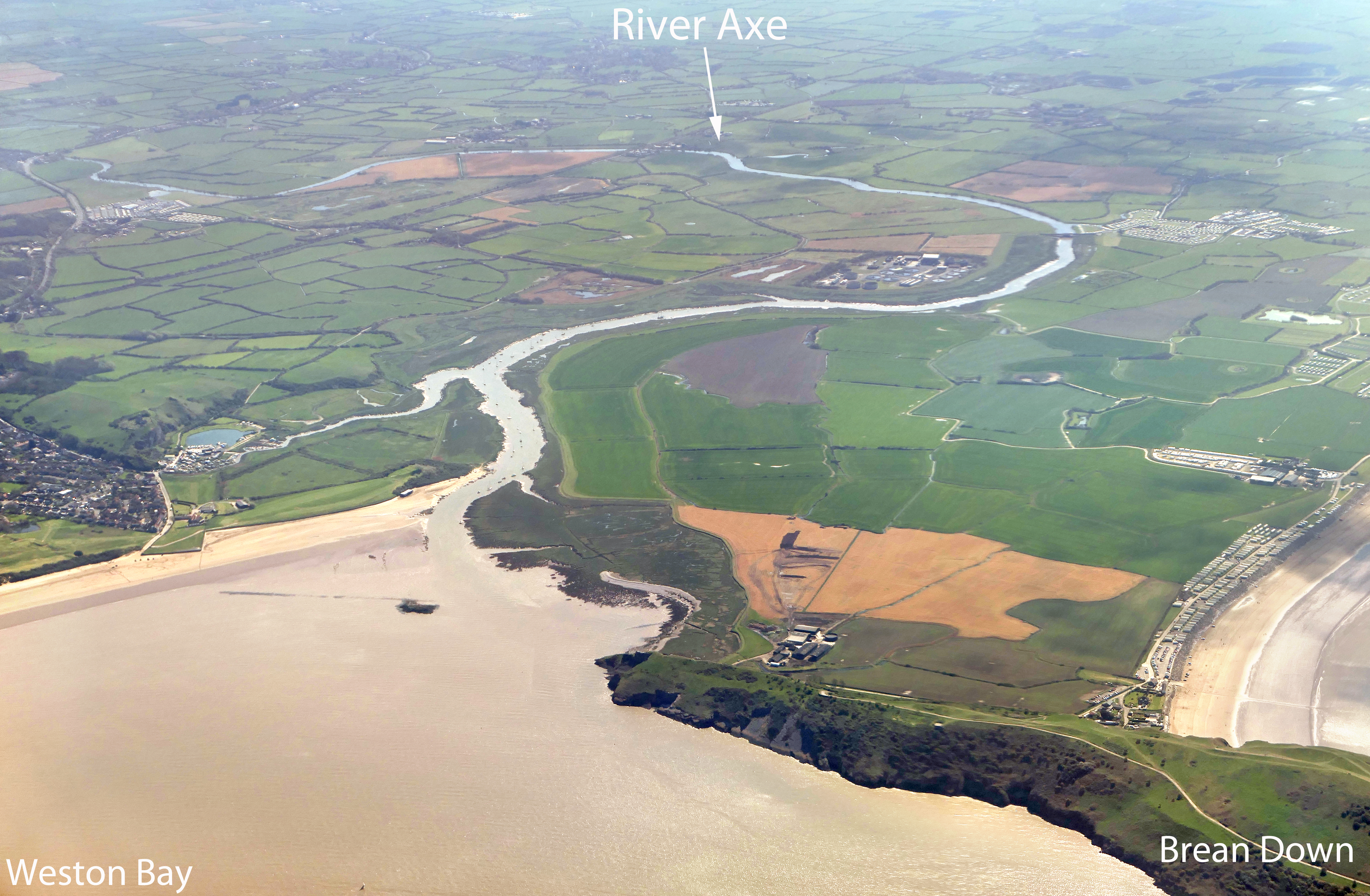 An aerial view of the mouth of the river Axe in Somerset, as it enters Weston Bay.